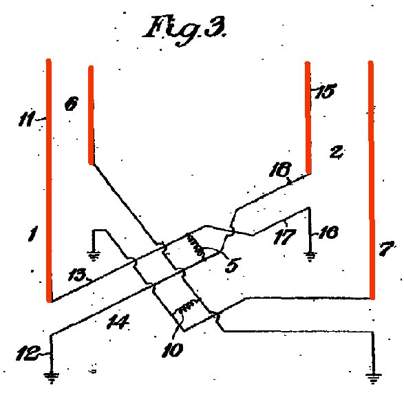 Diagram showing typical Adcock antenna array GB patent 130490, Frank Adcock, "Improvements in Means for Determining the Direction of a Distant Source of Electro-magnetic Radiation", granted 1919-08-07